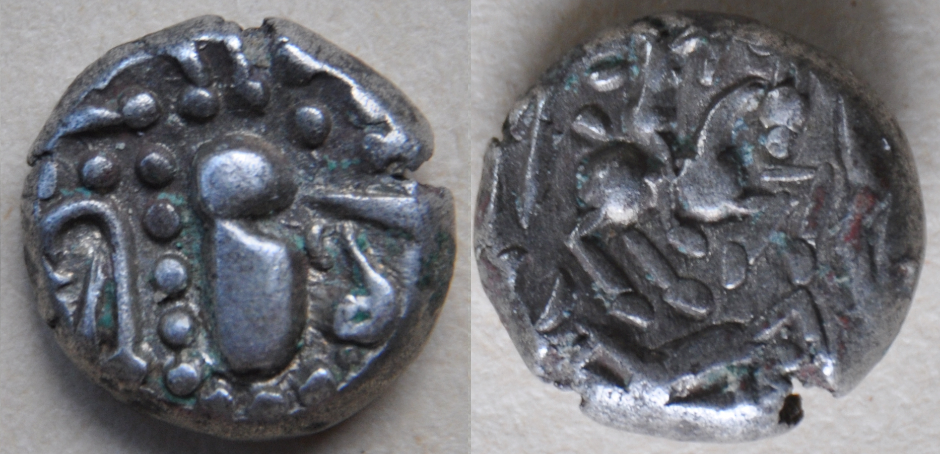 Une drachme d'argent anonyme (peut-être des Silaharas du Nord Konkan) datant des XI-XIIe siècles. Ce genre de monnaie a été trouvée dans le district de Nimar du Madhya Pradesh et dans le Huzur Jawhirkhana d'Indore. Dimension : 14 mm Poids 4,4 g. Référence : Mitchiner NIS 651/652 Coins of rulers of India An anonymous silver drachma (perhaps from the North Konkan Silaharas) dating from the 11th-12th centuries. This kind of currency was found in the district of Nimar of Madhya Pradesh and in the Huzur Jawhirkhana of Indore. Dimension: 14 mm Weight 4.4 g. Reference: Mitchiner NIS 651/652